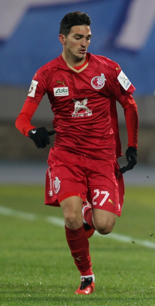 Magomed Ozdoyev playing for FC Rubin Kazan against FC Zenit St. Petersburg on 13 March 2016.